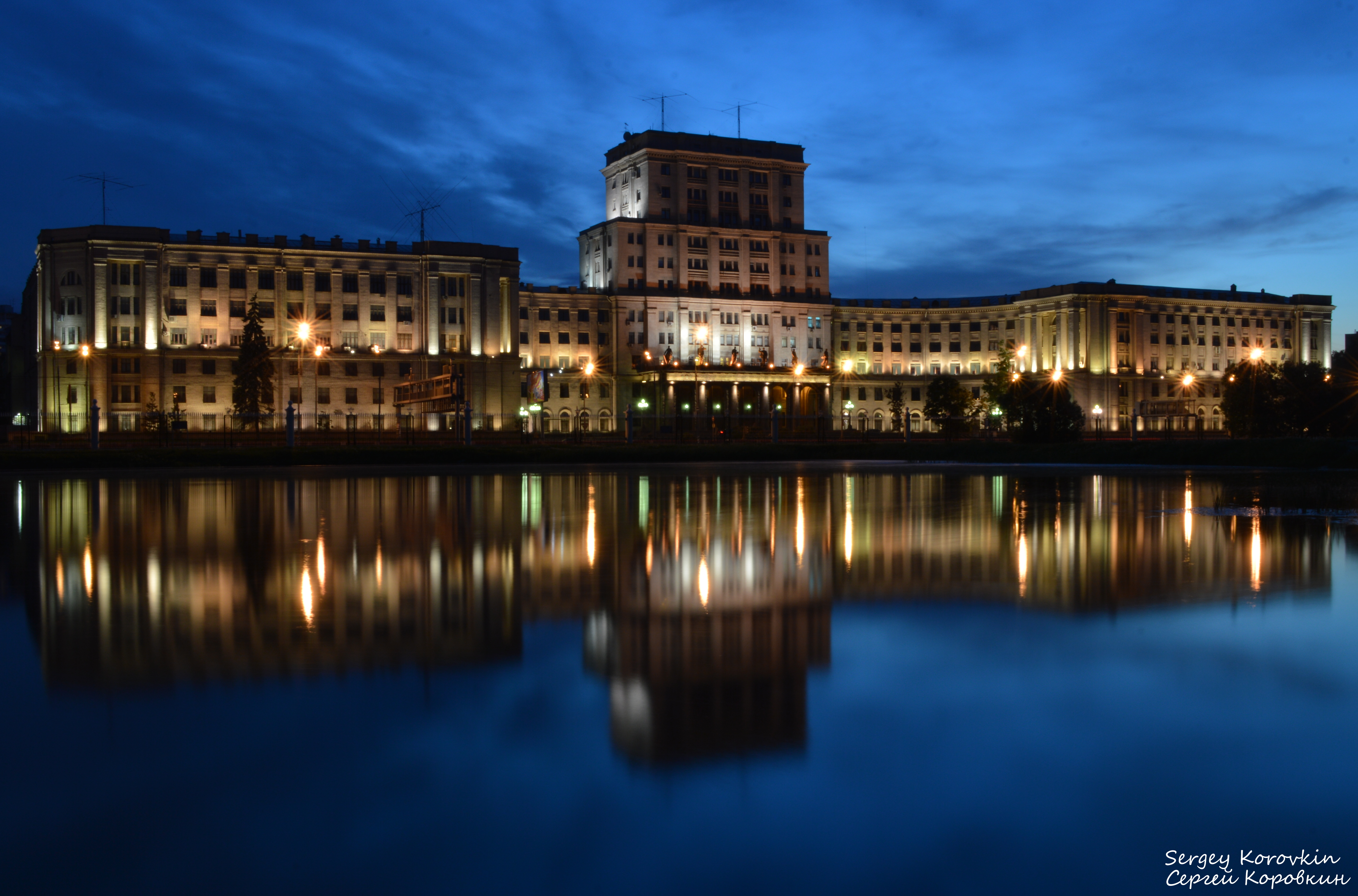 Main building of Bauman Moscow State Technical University at blue hour.